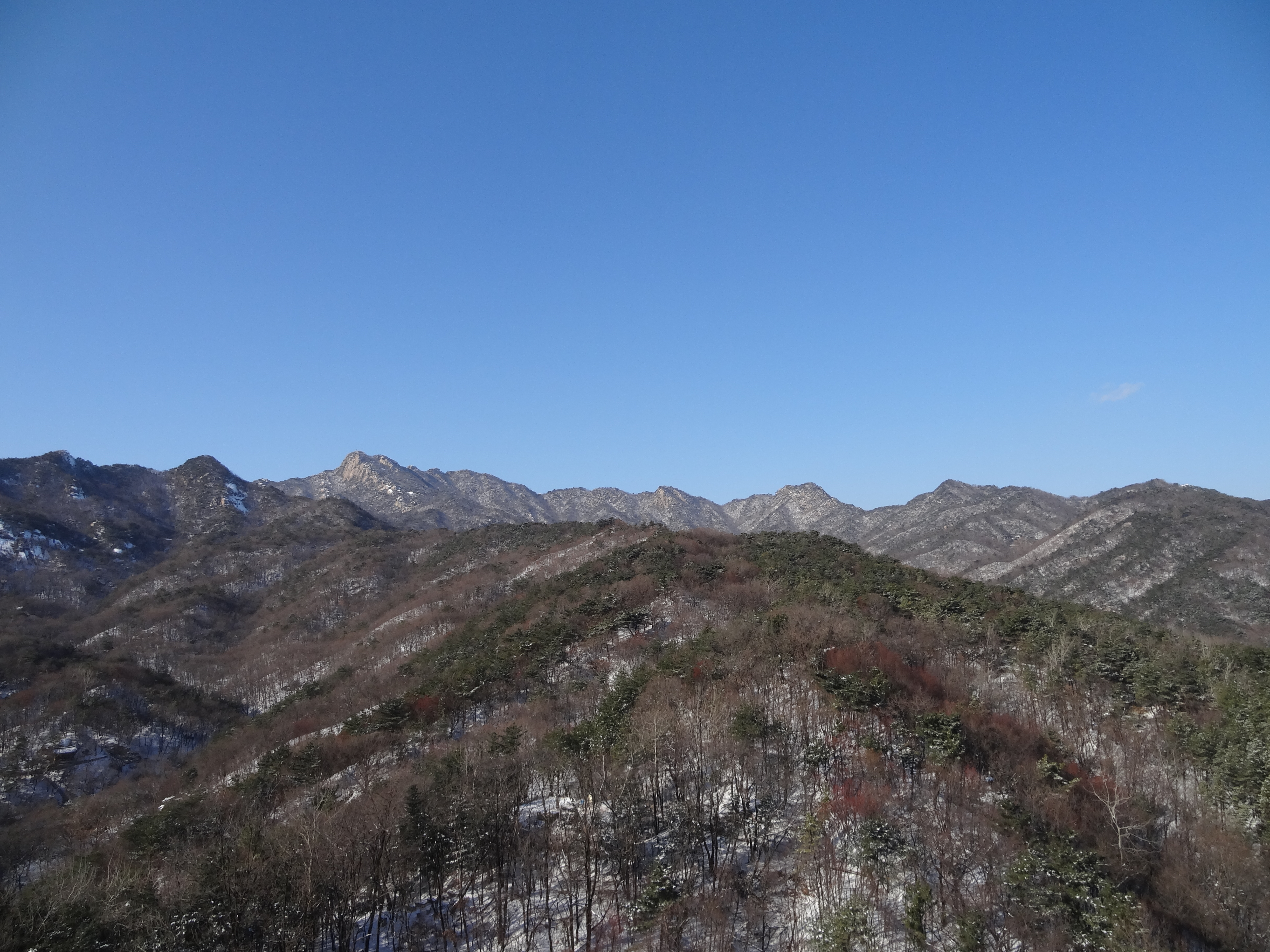 Landscape of Bukhansan with snow in December - from southern side. Taken in Dec. 2013 at Kookmin University. You can see Hyeongjae Peak and Bohyeon Peak on the left side, and Seongdeok Peak and Kalbawi ridge in the middle of this picture.